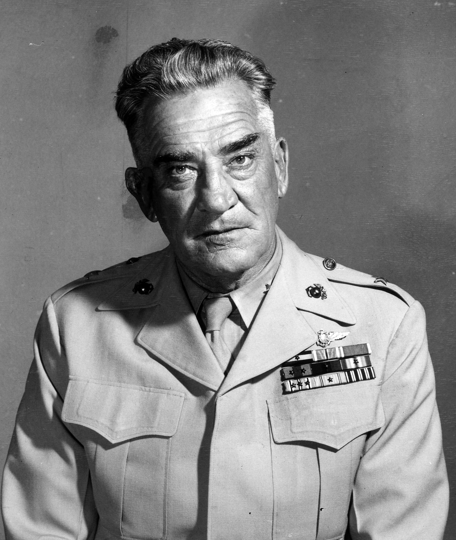 Lawson Harry McPhearson Sanderson (July 22, 1895 - June 11, 1973) was an aviation pioneer of the United States Marine Corps with the rank of Major General. He is most noted for his effort in development of the Dive bombing technique. As Commanding officer of the 4th Marine Aircraft Wing, Sanderson accepted the Japanese surrender of Wake Island at the end of the World War II.